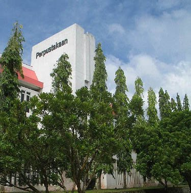 The library of Universiti Putra Malaysia (UPM) Bintulu campus, Sarawak, Malaysia.]